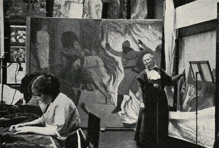 Photograph of the Danish artist Dagmar Olrik (1860-1932) and an assistant creating tapestries in Copenhagen City Hall.